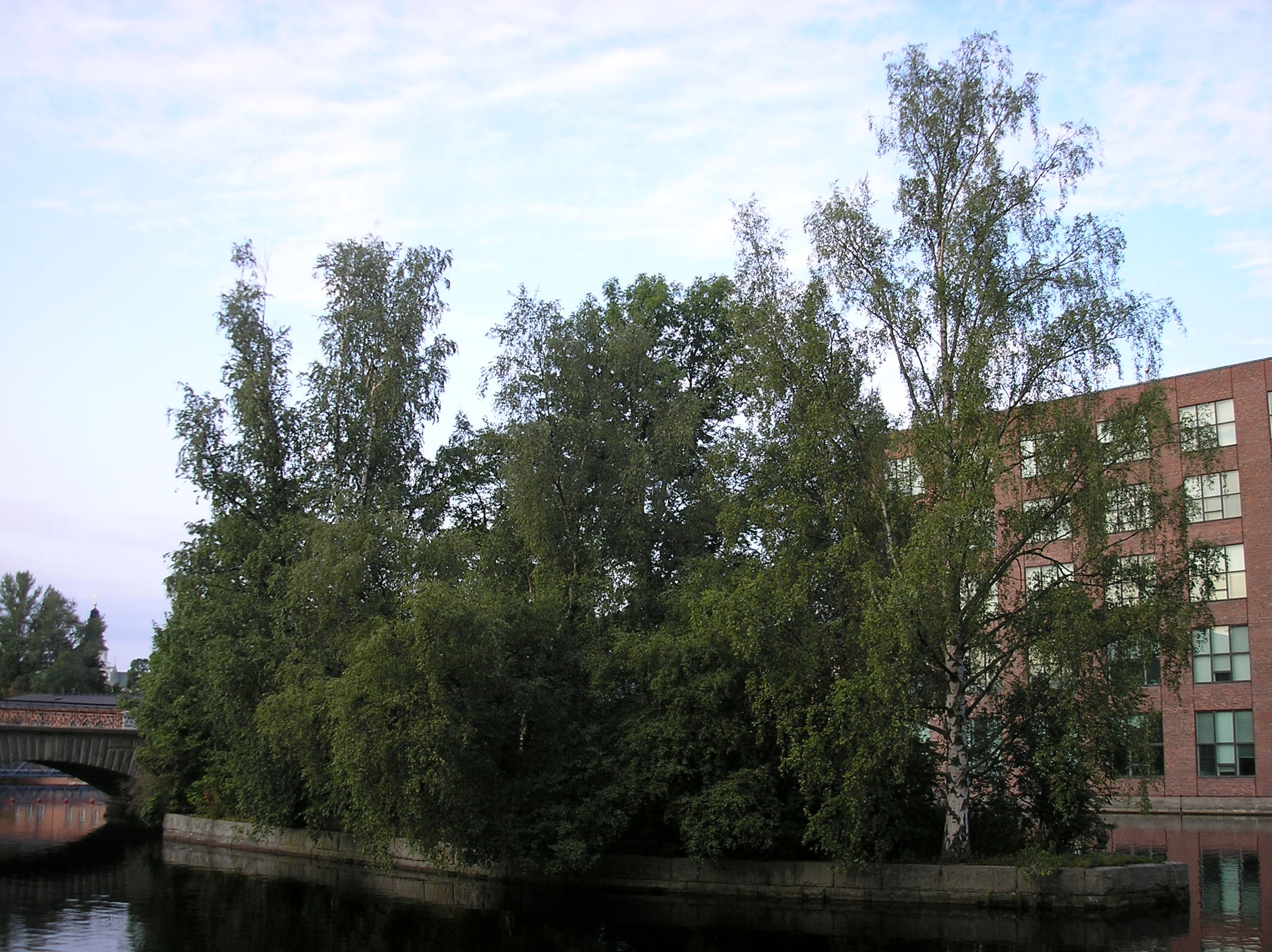 Small Konsulinsaari island in Tammerkoski, in the Finnish city of Tampere. The southern end of the island is under the Satakunnansilta bridge, which was completed in 1900.